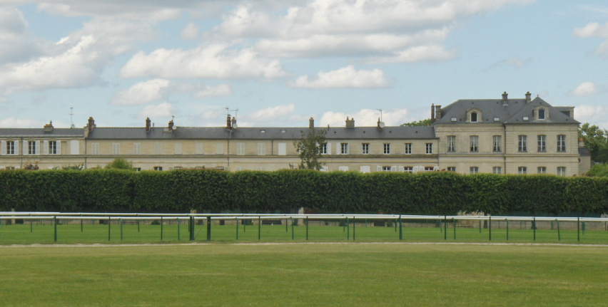 Maisons des officiers in Chantilly. View from Chantilly Racetrack.